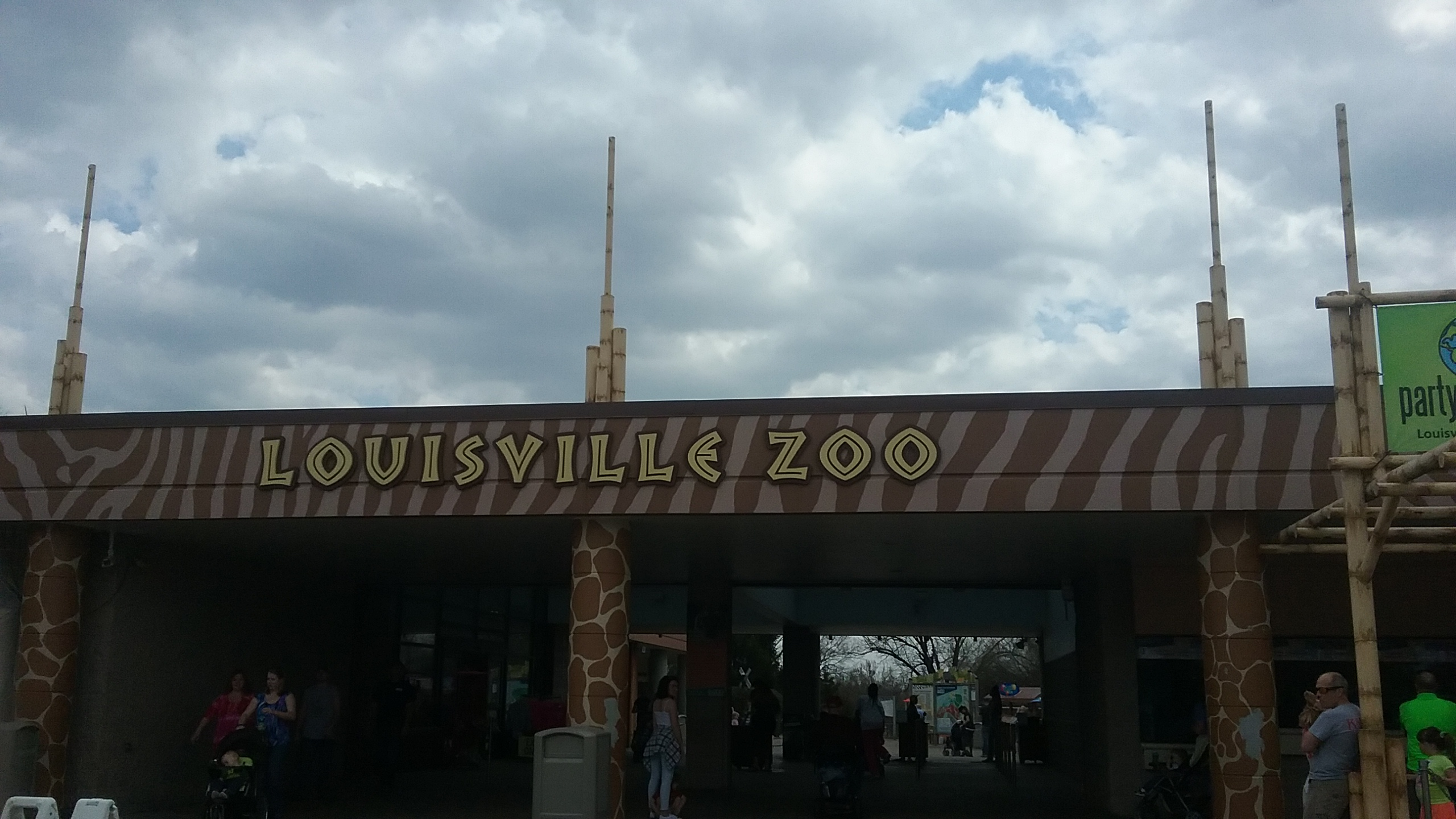 The image of the Louisville Zoo was taken on March 24, 2017